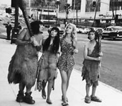 Publicity photo from the television show It's About Time. Shown are Joe E. Ross, Imogene Coca, Mary Grace, and Pat Cardi.